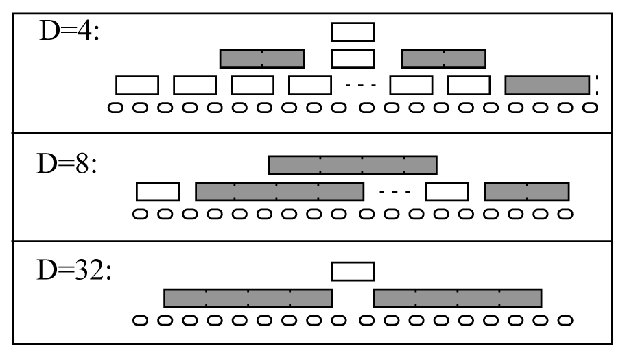 different dimensions of the x-tree